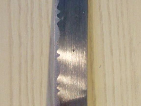 Fukure: A pocket of air ... A fukure appears as a blister-like swelling on the surface of the blade.